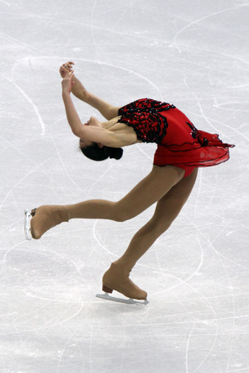 Mirai Nagasu at the 2010 Winter Olympics.